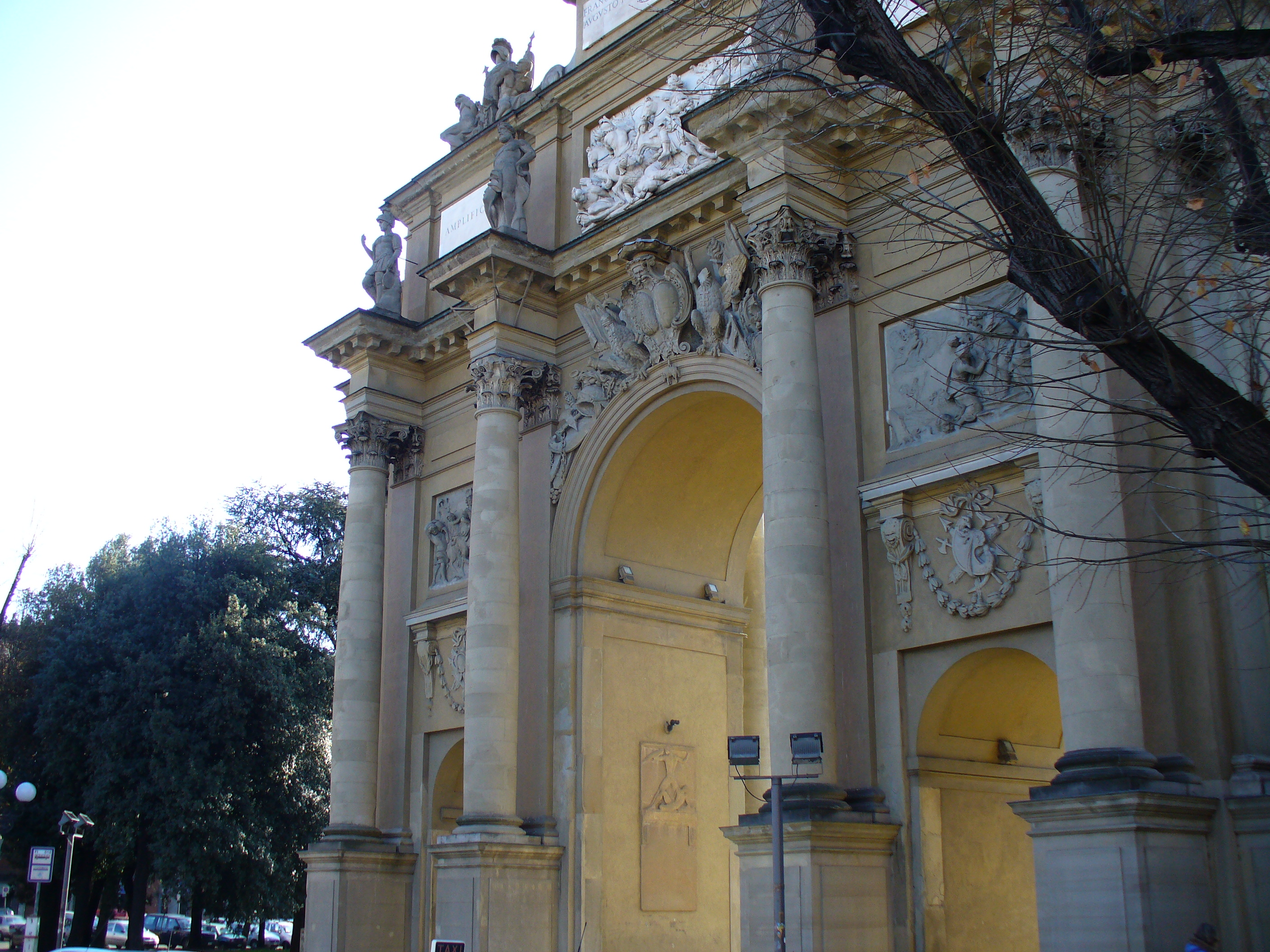 Arco di Trionfo (Florence)